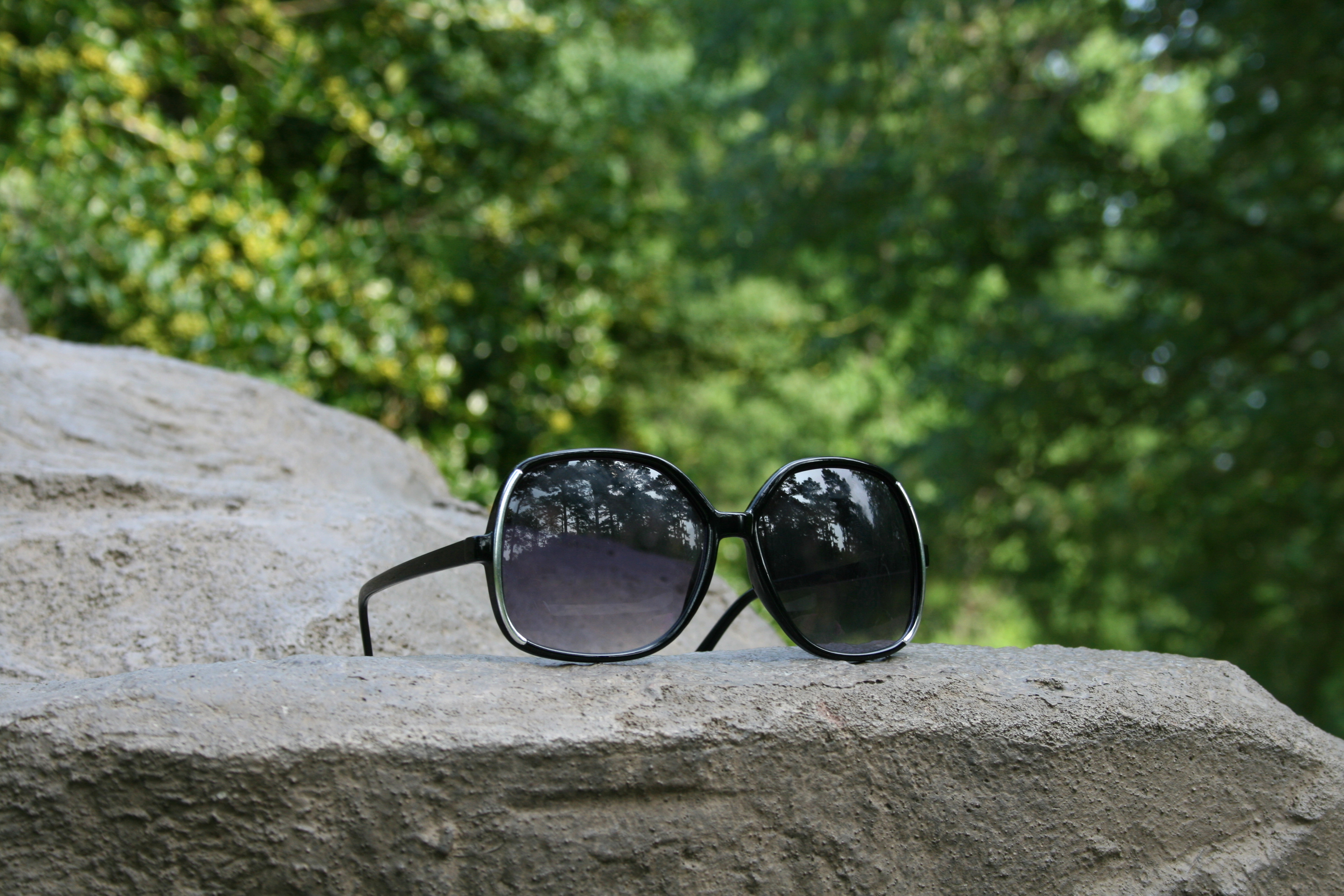 Womens' sunglasses.